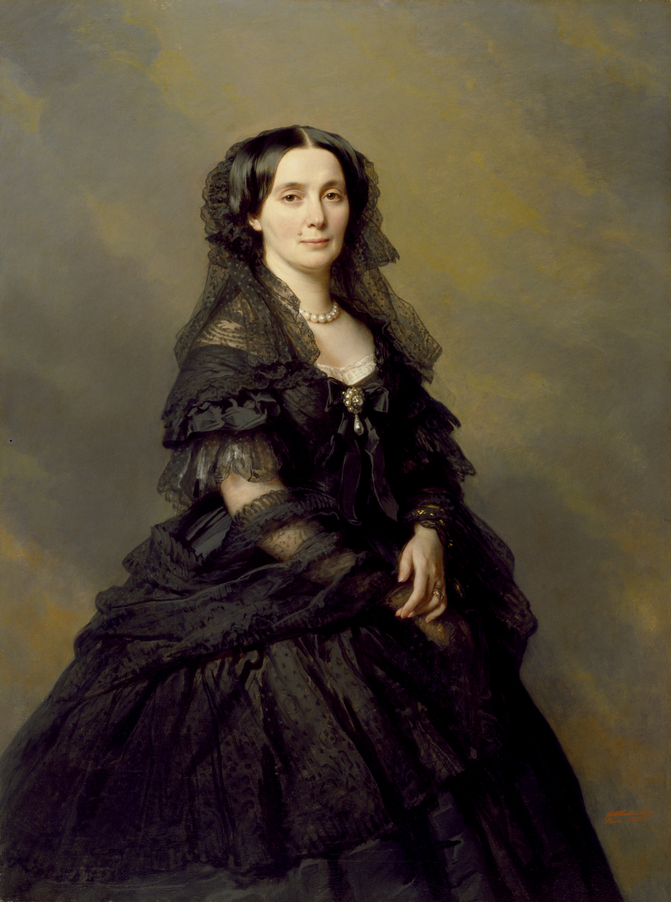 Although born a peasant in the Black Forest region of southwestern Germany, Winterhalter became the foremost portraitist of European royalty and nobility. Hélène Bibikoff was initially married to Prince Esper A. Belosselsky-Belozersky and subsequently to Prince Kotschoubey, the son of the chancellor of the Russian empire. A woman of great wealth, even by the standards of her time, the Princess travelled extensively, mingling in the European courts, and entertaining lavishly. Her palace on the Nevsky Prospekt, St. Petersburg, was the setting for balls that rivaled those of the court in all its grandeur. She is reported to have maintained her role as a social leader at the imperial court with autocratic zeal. Winterhalter has depicted her in one of his customary formats, three-quarter length, nearly life-size, and painted against an overcast sky. She wears a black silk gown, black lace, and jewelry, including a necklace of large pearls, a pearl brooch with a large pendant pearl, a flexible, serpentine bracelet, and several rings.